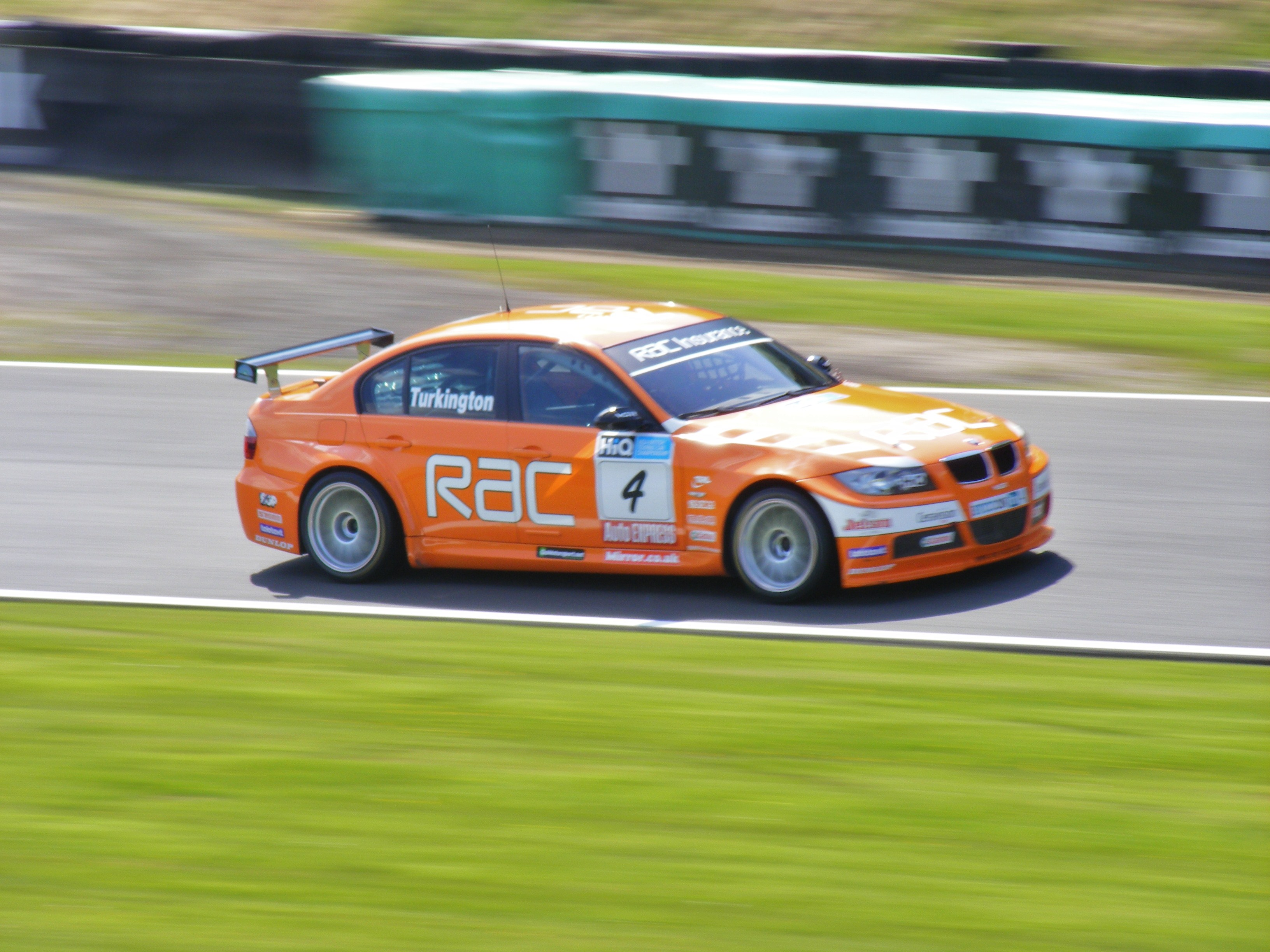 Colin Turkington exits knickerbrook corner at Oulton Park during qualifying.